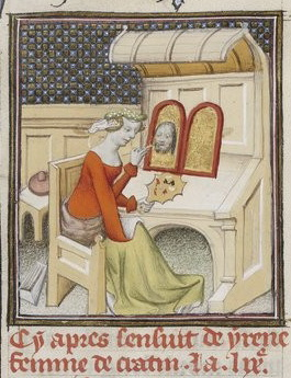 Eirene (fol. 92r) De mulieribus claris (BNF Fr. 598), beginning of the 15th century